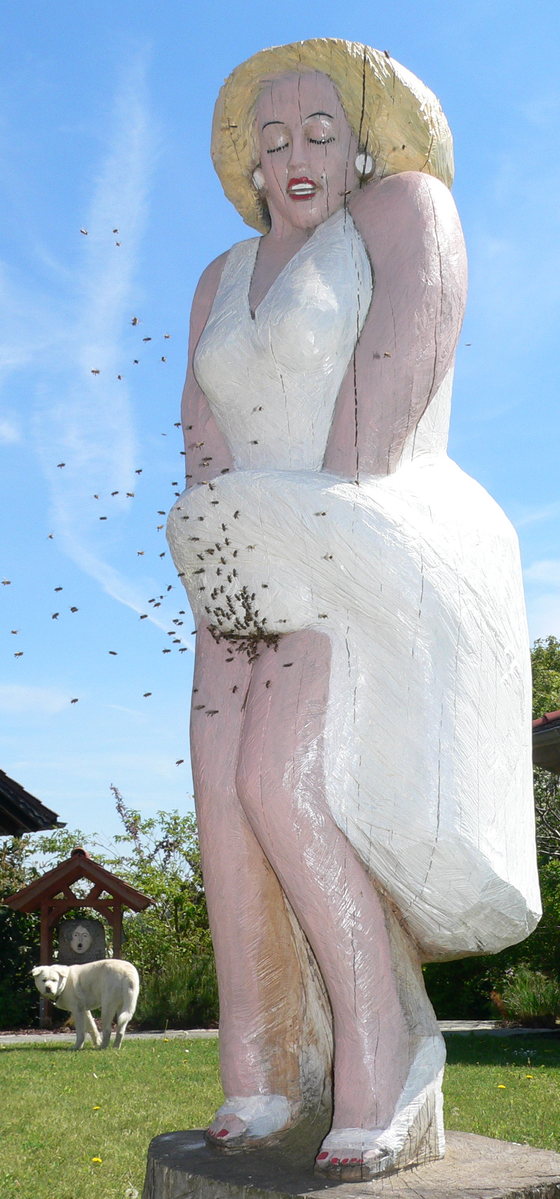 Sculptered beehives: a rivival of an old tradition in Germany and Poland